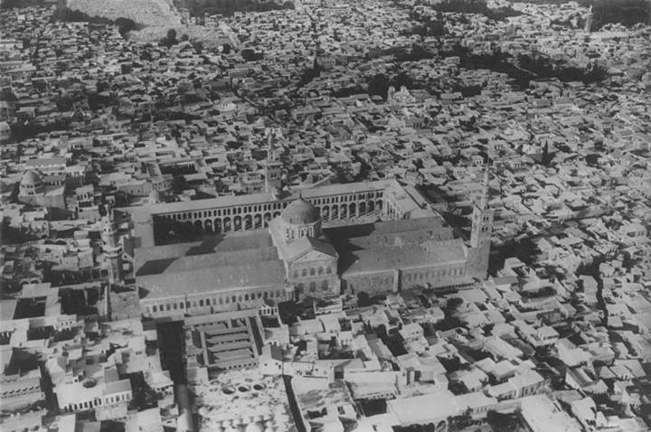 Photograph of the Umayyad Mosque in the 1930s, by Pierre Antoine Berrurier.